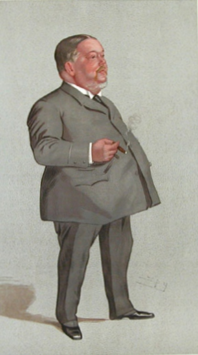 Caricature of Mr JS Balfour MP. Caption read "Burnley".